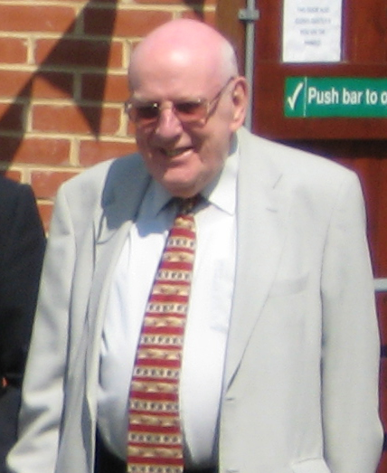 The English television actor Frank Williams (who played the Rev. Farthing) during a Dad's Army celebration at Bressingham Steam Museum in Norfolk, May 2011.